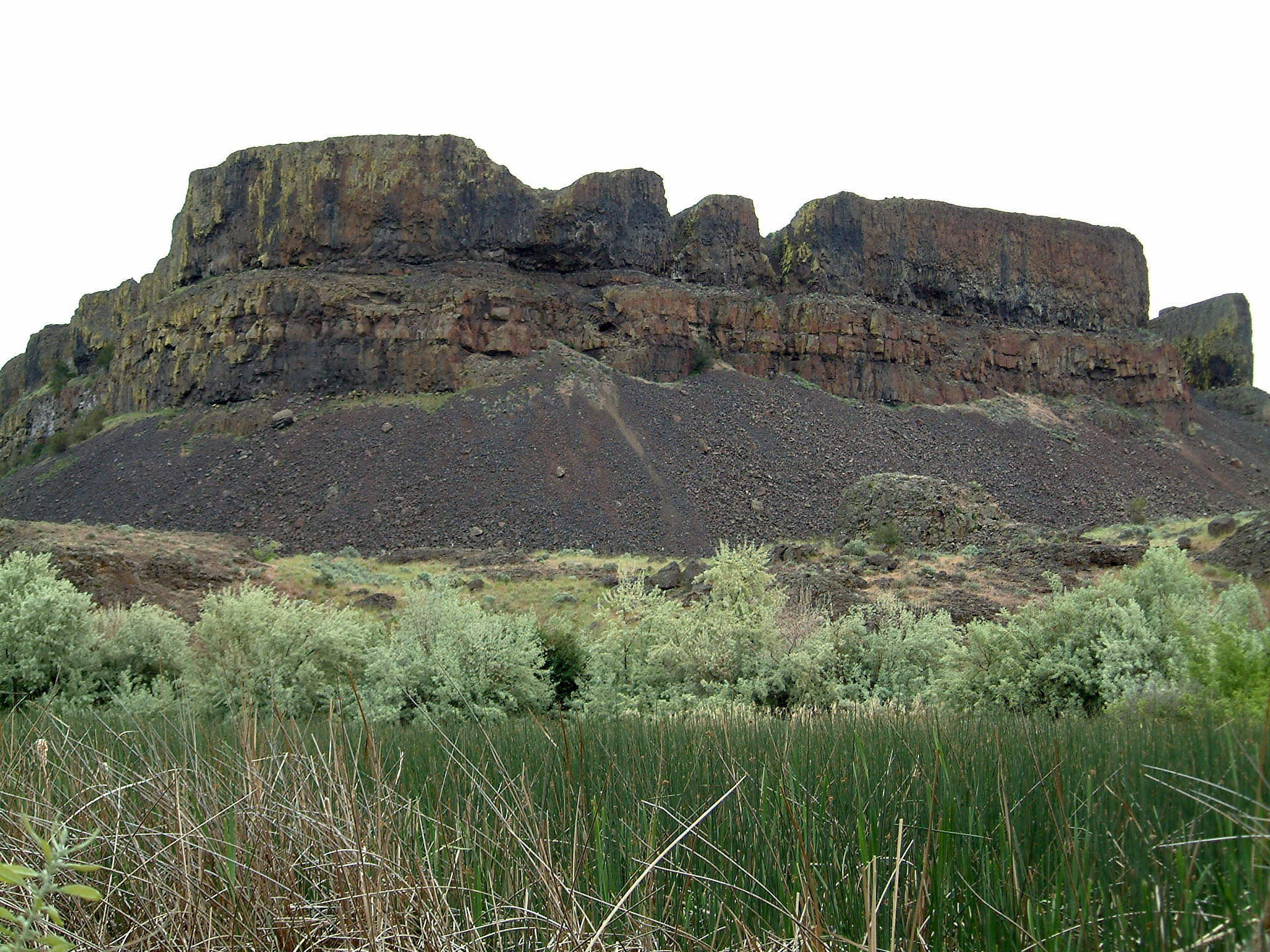 This is the view from the bottom of the coulee which contains the Camp Delany Environmental Learning Center in Sun Lakes State Park in Washington.